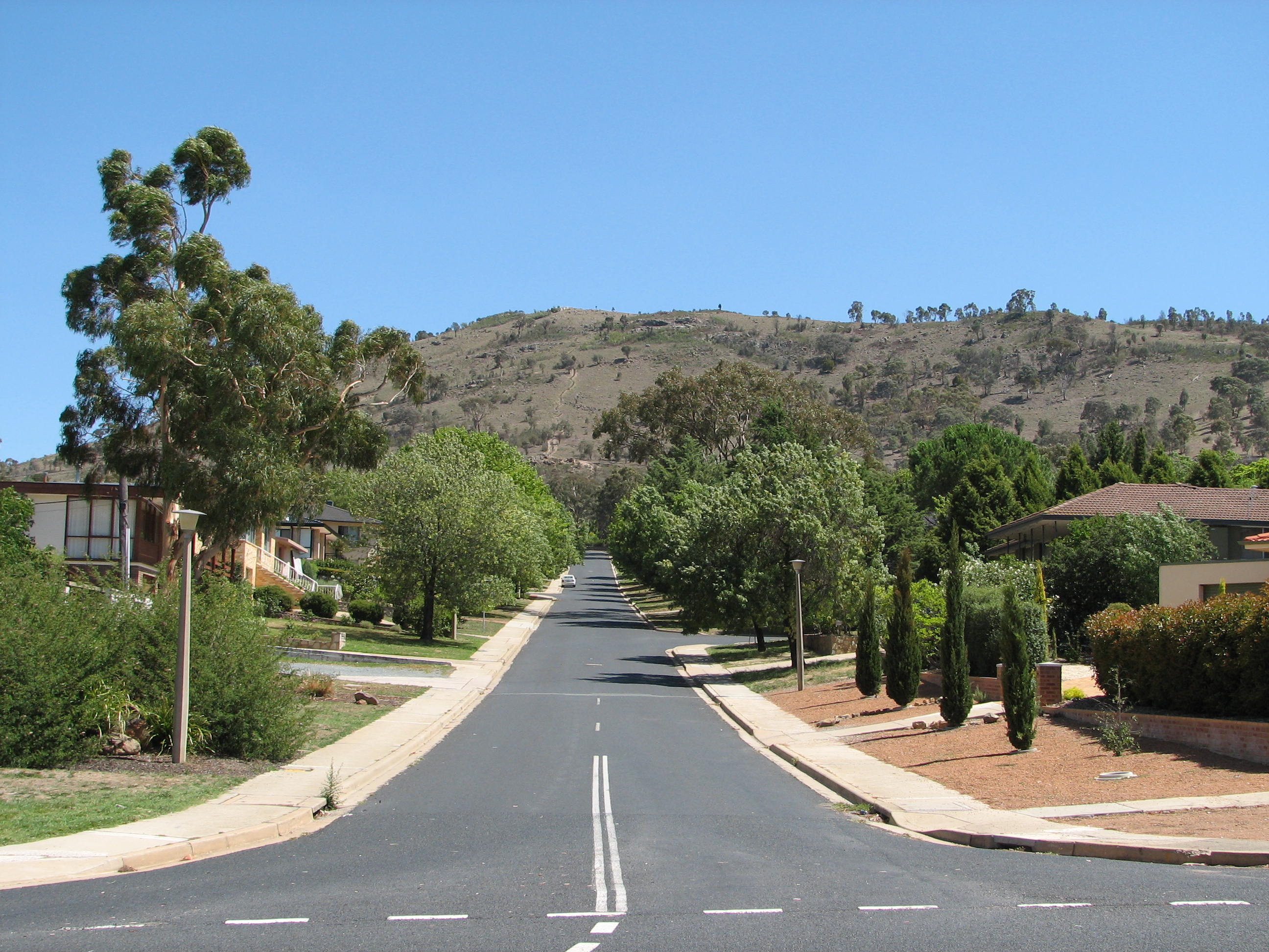 Mount Taylor behind Parkhill Street, in Pearce, Australian Capital Territory. Taken by me on 20th January 2007.